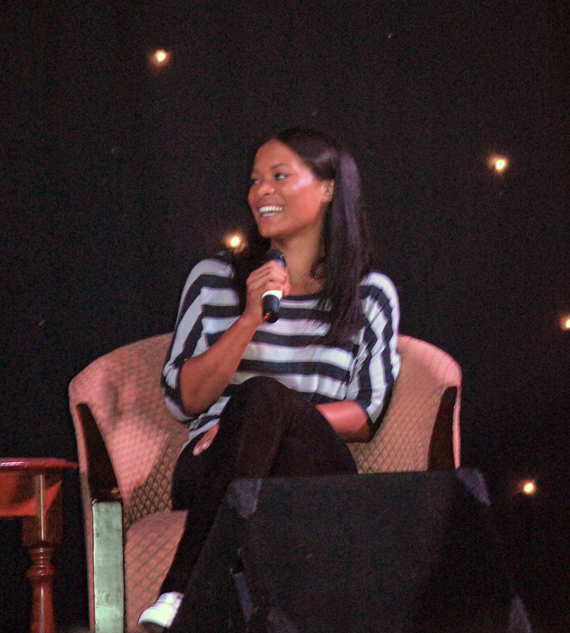 American actress Rose Rollins at L6, fan convention for The L Word television program, in Norbreck Castle Hotel, Blackpool, UK.